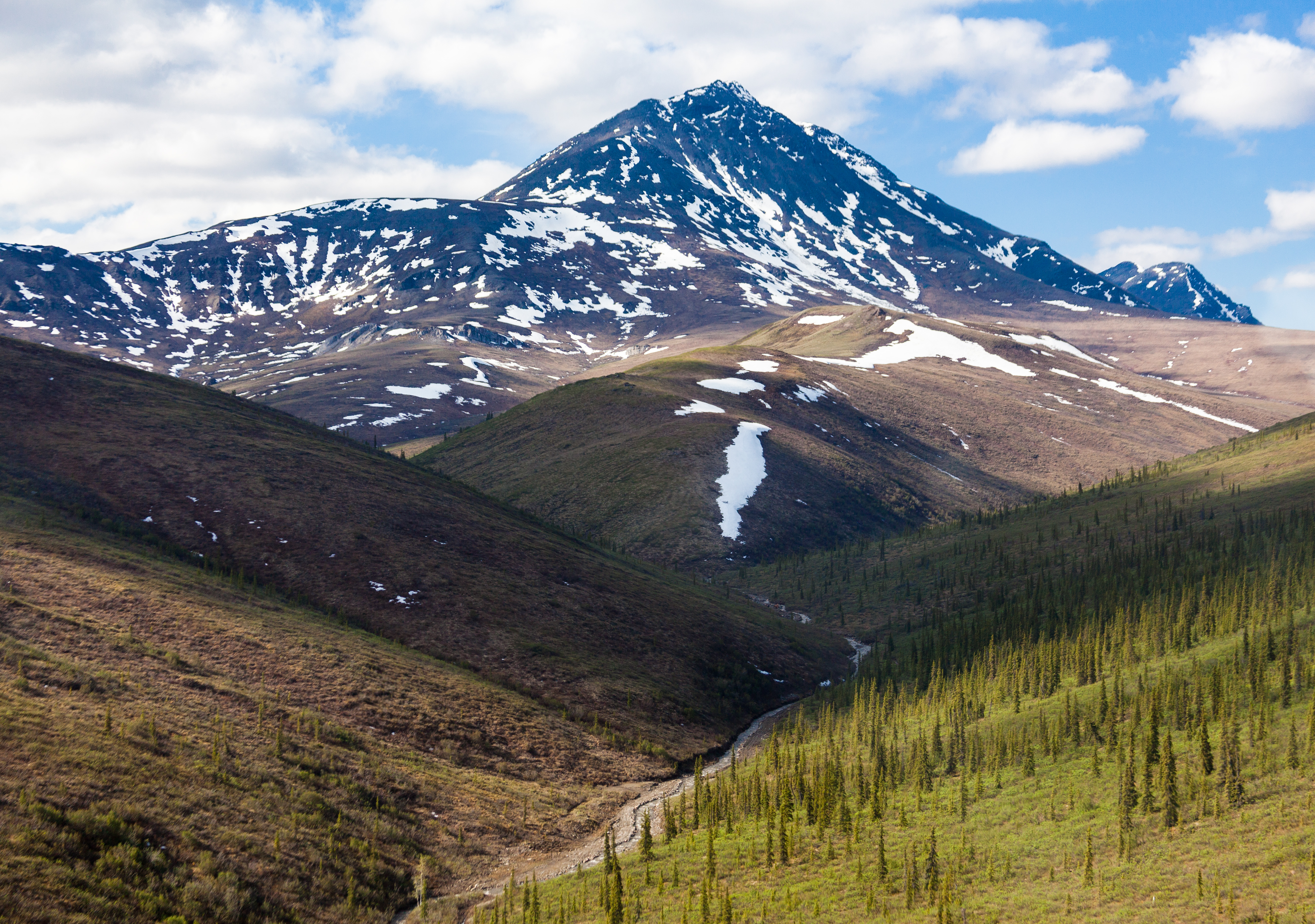 View to the south of the headwaters of Gold Creek on the eastern boundary of the BLM-managed Dalton Corridor in the Brooks Range, Alaska. The prominent peak is Poss Mountain. Poss Mountain looms over the headwaters of Gold Creek on the eastern boundary of the BLM-managed Dalton Corridor in the Brooks Range, Alaska. The Poss Mountains Research Natural Area was designated in 1991 to protect mineral licks and lambing habitat for Dall sheep.